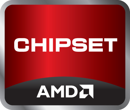 AMD Chipset Logo (2011-2013)